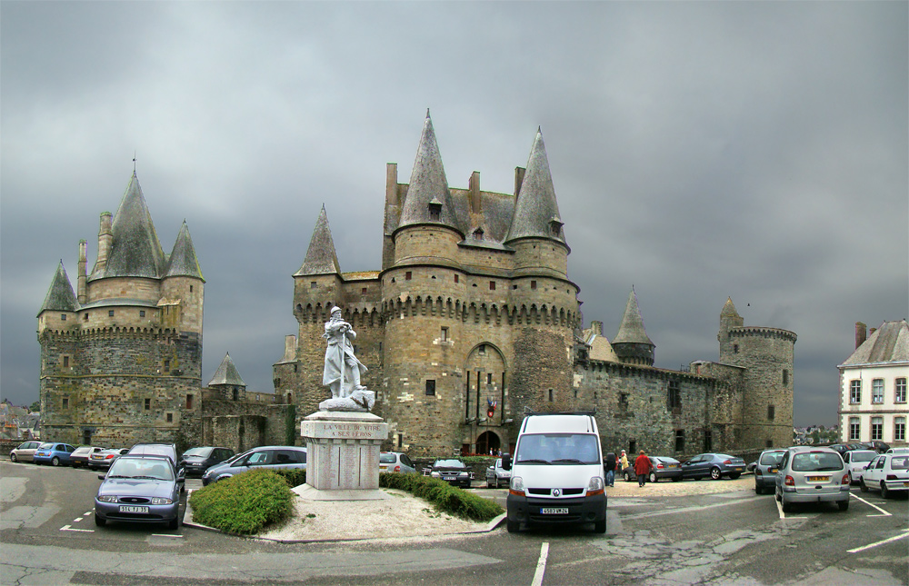 Château de Vitré, Ille-et-Vilaine, Bretagne, France. East façade opening onto Du Château Square.